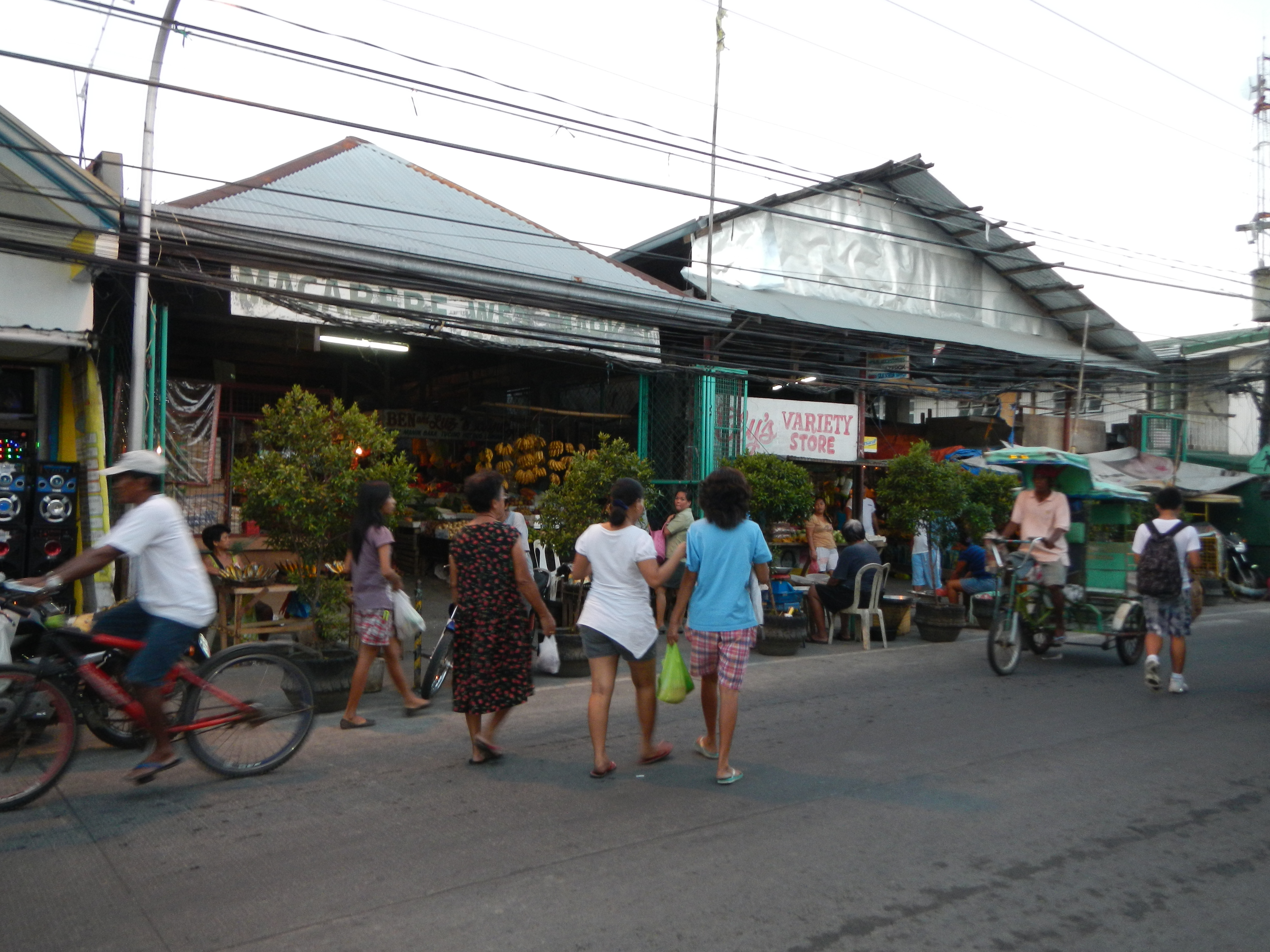 Macabebe[1] market